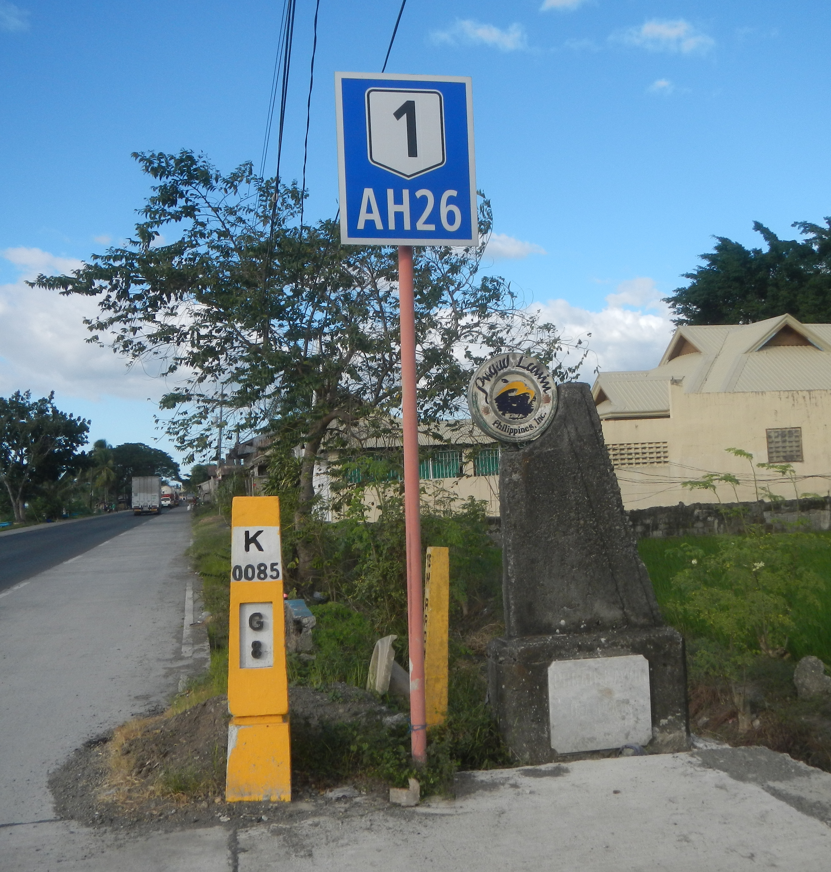 Diagrams of Asian highway signs of the Philippines Pugad Lawin Philippines Inc. along Maharlika Highway (Gapan City, Nueva Ecija section) in Barangay San Roque, Gapan City 15.2392, 120.9596 Sitio Baluarte 15° 57' 57" North, 121° 3' 2" East Gapan Nueva Ecija beside Bulualto, San Miguel, Bulacan (along the Maharlika Highway (Cagayan Valley Road, Baliwag-San Rafael-San Ildefonso-San Miguel, Bulacan-Gapan City, Nueva Ecija section) of the Pan-Philippine Highway, also known as the Maharlika "Nobility/freeman" Highway or Asian Highway 26, AH26) Philippine highway network (Note: Judge Florentino Floro, the owner, to repeat, Donor Florentino Floro of all these photos hereby donate gratuitously, freely and unconditionally Judge Floro all these photos to and for Wikimedia Commons, exclusively, for public use of the public domain, and again without any condition whatsoever).